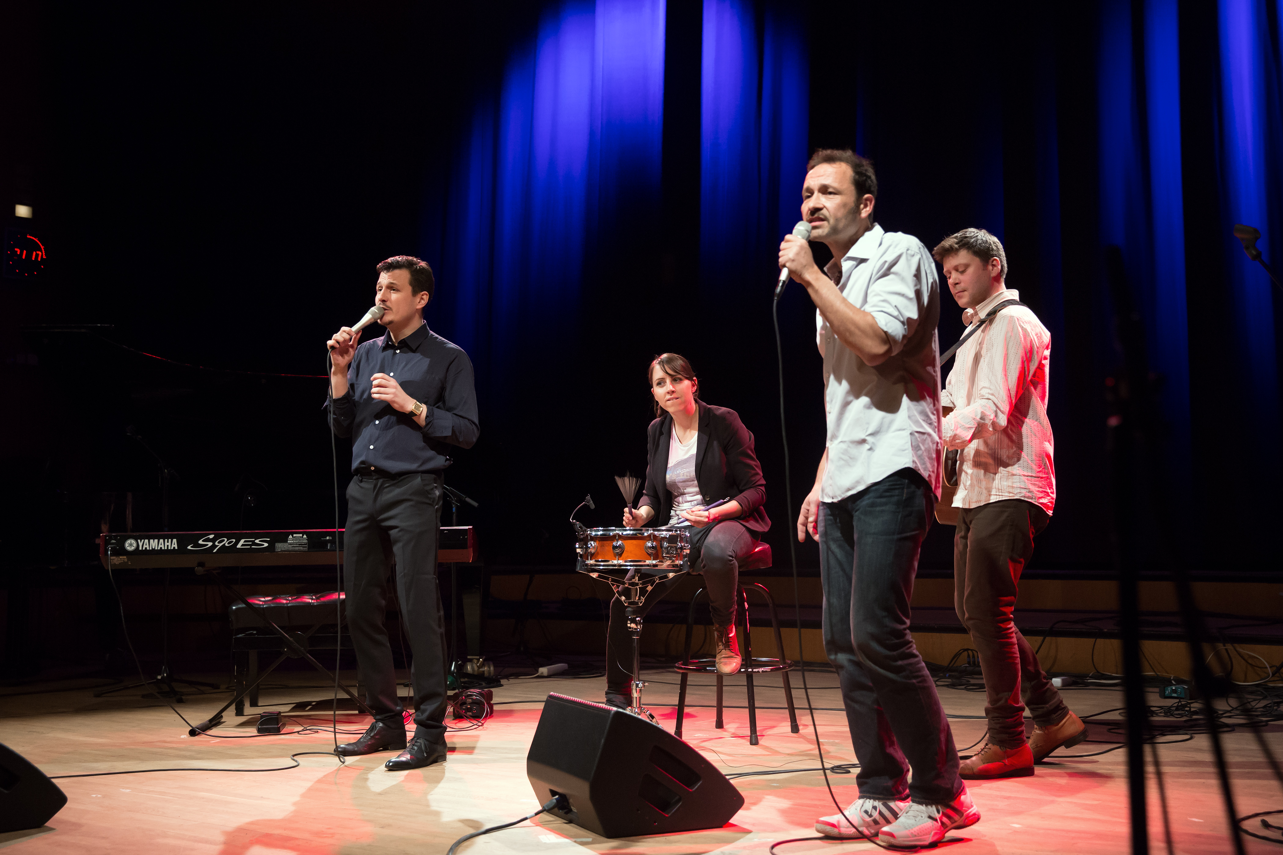 Familie Lässig, concert at the charity event An Evening for Licht ins Dunkel 2015 at Radiokulturhaus/Funkhaus Wien in Vienna, Austria.